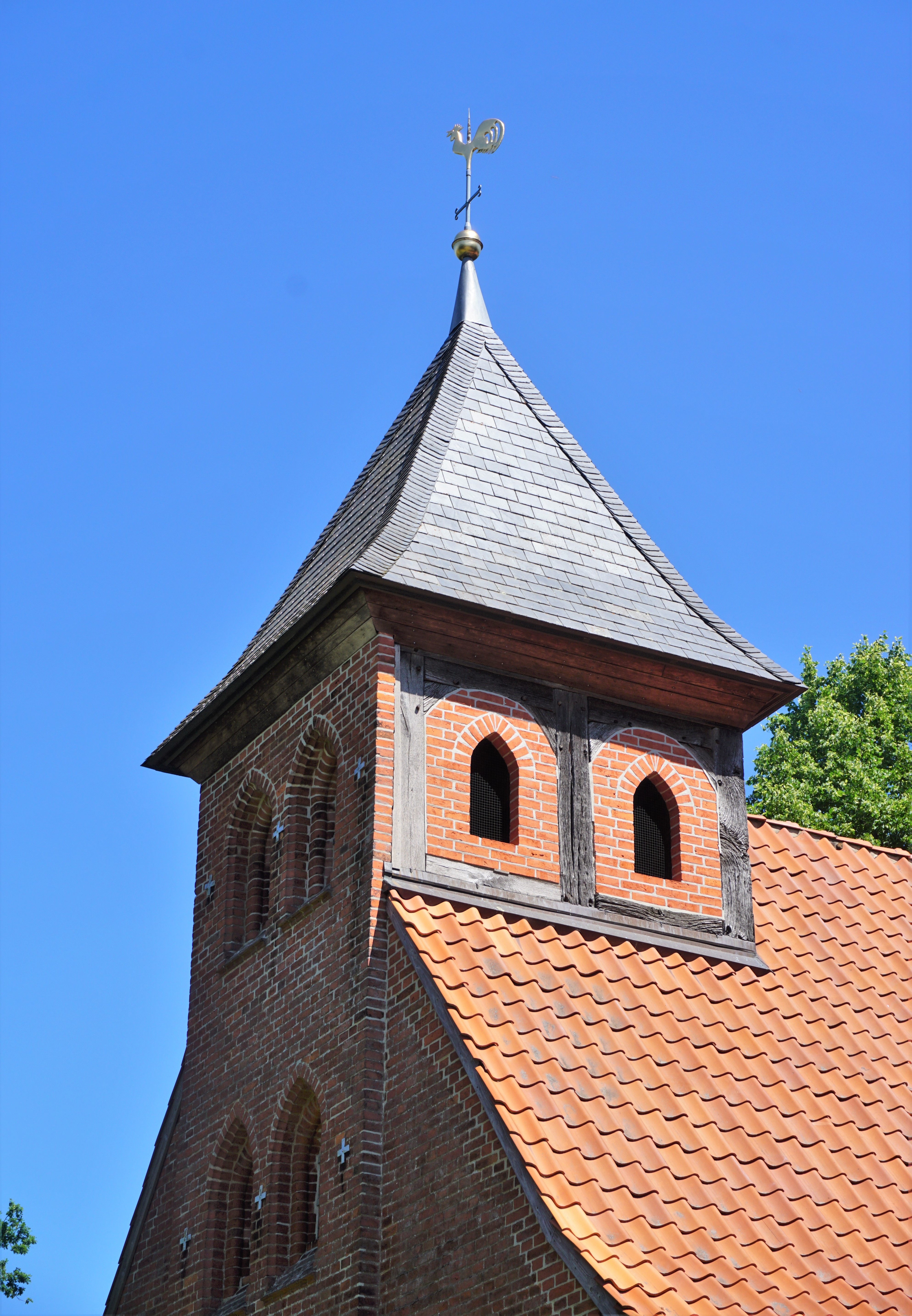 Rooftop rider of the Saint Nicholas Chapel in Vastorf in the Lower Saxonian district of Lüneburg.